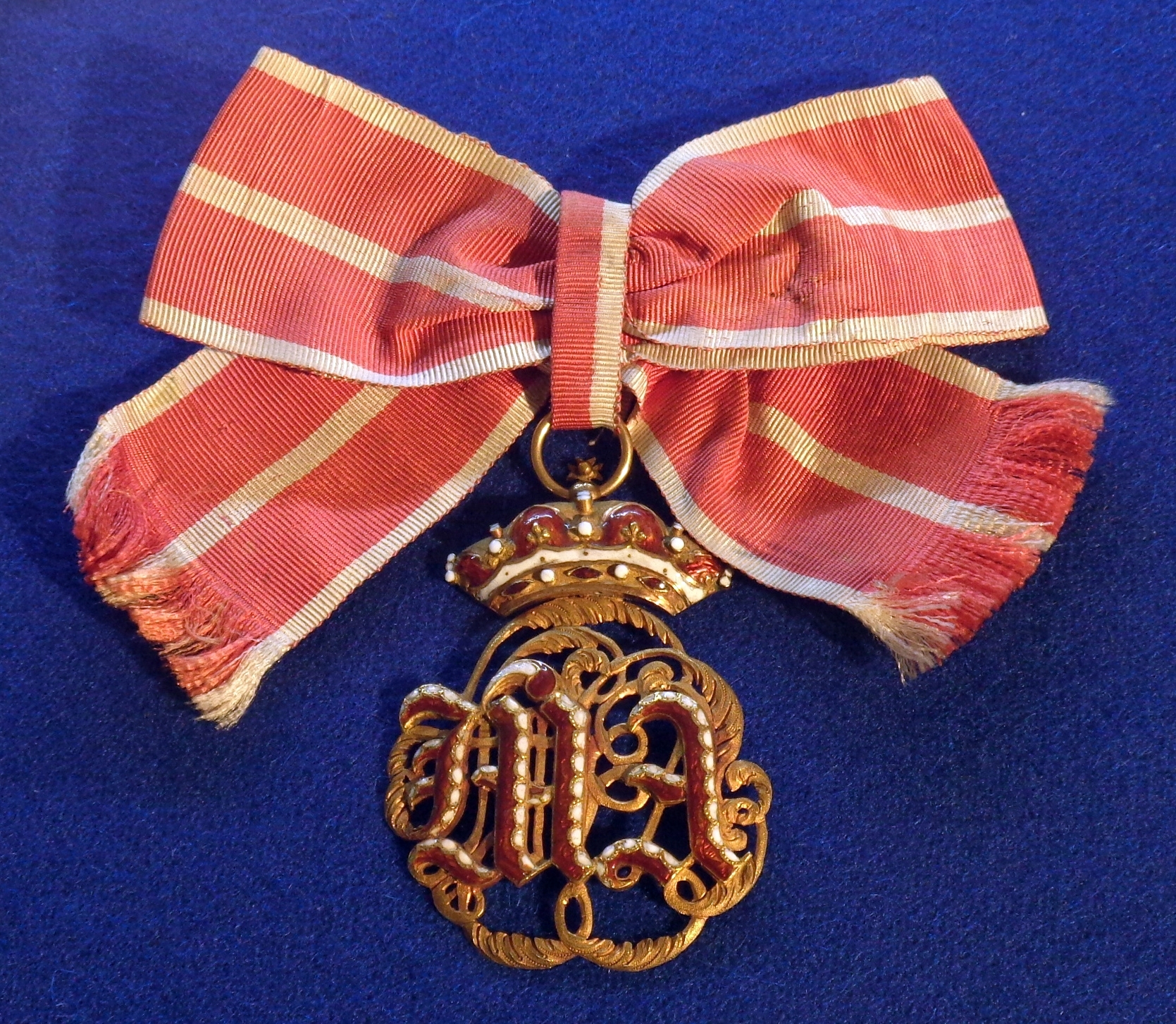 Order of the Grand Duchess Maria Antonia, badge, c.1840. Grand Duchy of Tuscany. The exhibition of the Tallinn Museum of Orders of Knighthood, Estonia.